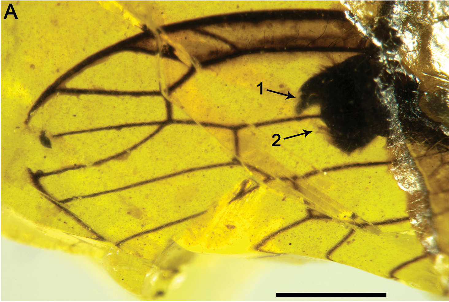 Styporaphidia? hispanica sp. n., holotype MCNA 9343. A hind wing apical fragment and genitalia; arrow 1 points to gonostyli 9, whereas arrow 2 points to the paired genital sclerites interpreted as the distalmost part of the parameres Scale bar = 1 mm.